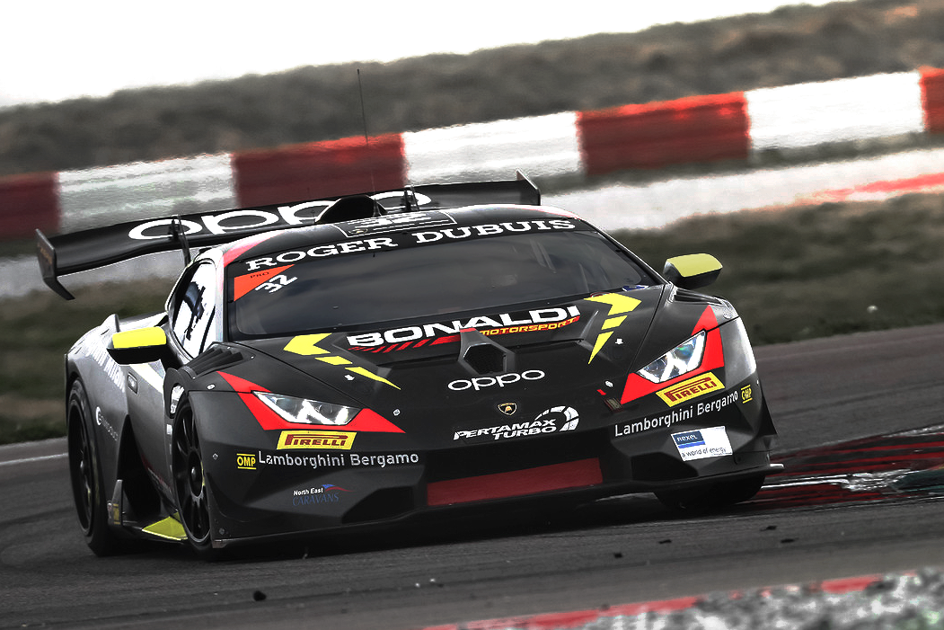 Erik Mayrink - Lamborghini 2020